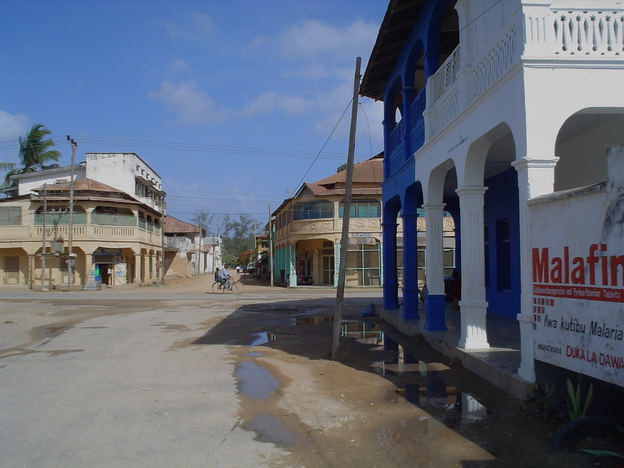 Colonial buildings on the crossroads of Ghana Street and Uhuru Street in central Lindi, Tanzania.